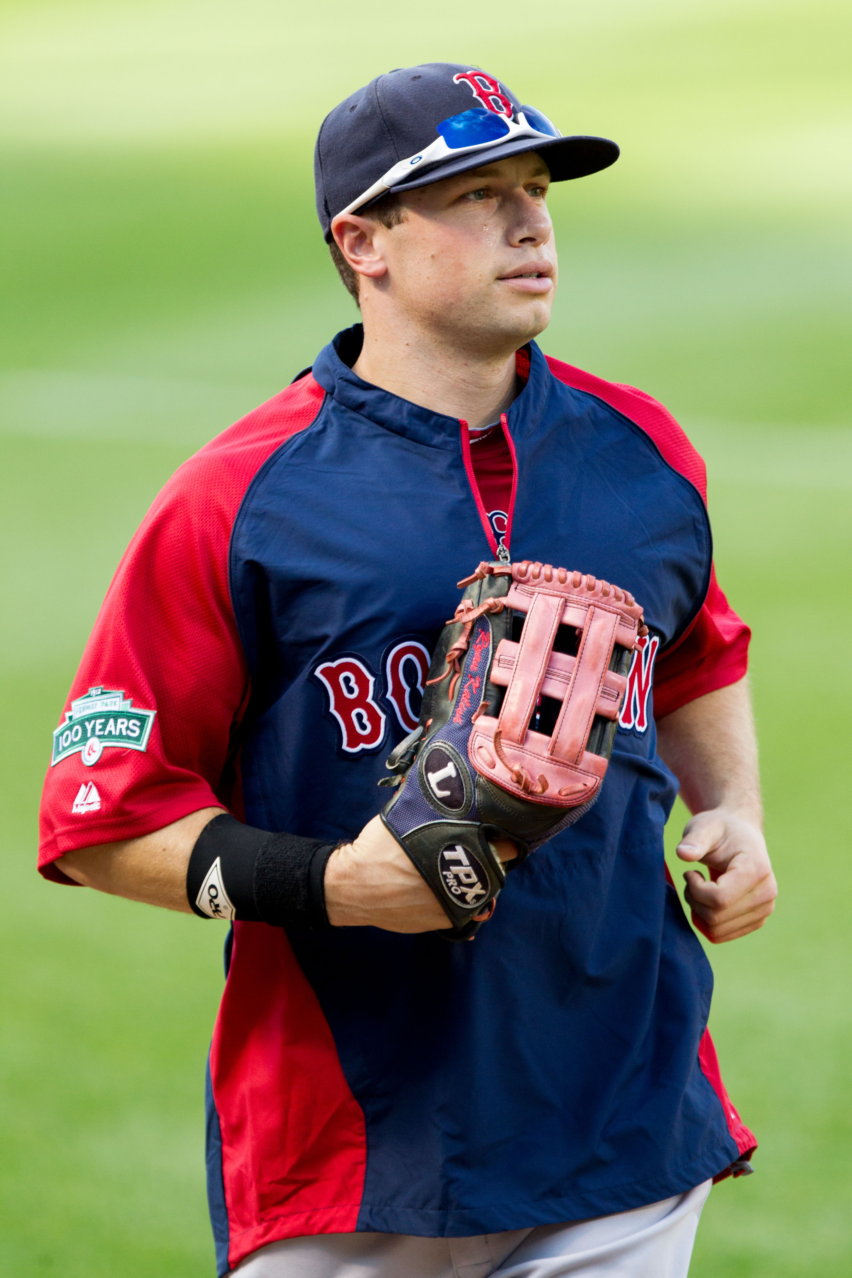 Daniel Nava using a baseball glove that says "Ryan Kalish".